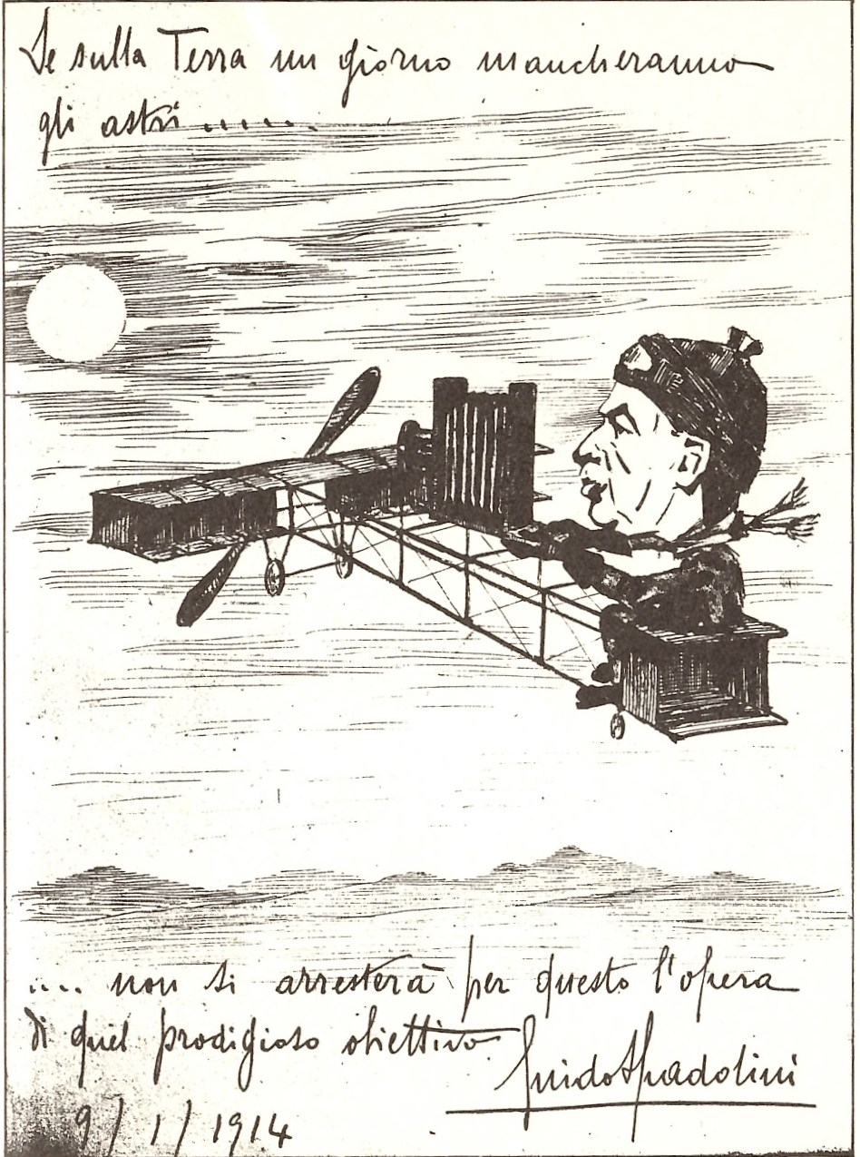 Schizzo